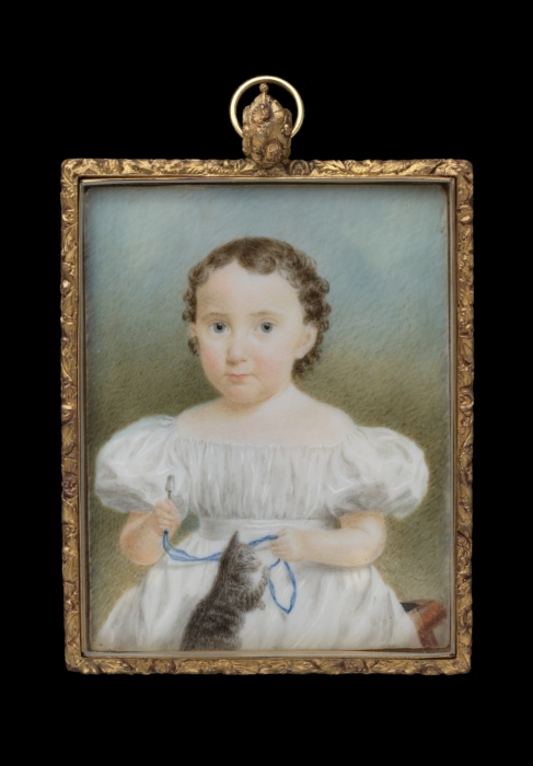 "Julia Porter Dwight," watercolor on ivory miniature, 2 11/16 in. x 2 1/4 in., painted by American artist Eliza Goodridge. Gift of Leonard F. Hill, B.A. 1969, Yale University Art Gallery, Yale University, New Haven, Conn.